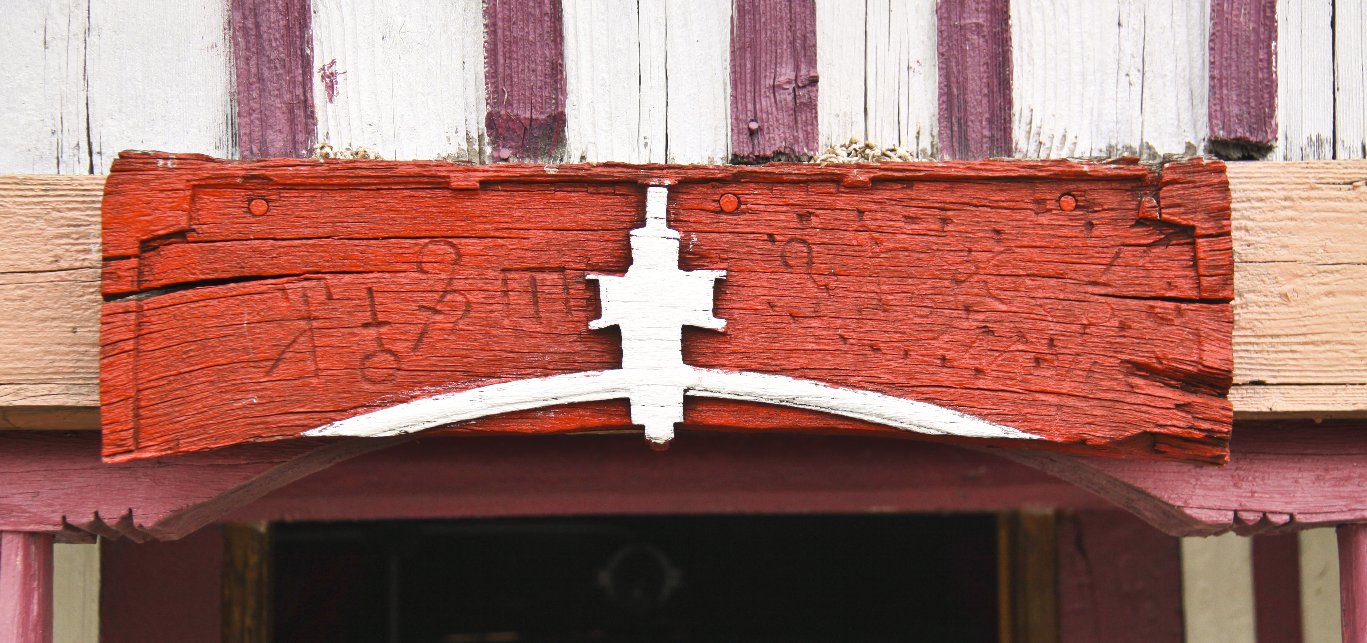 Buteşti, Teleorman county, Romani: the wooden church.